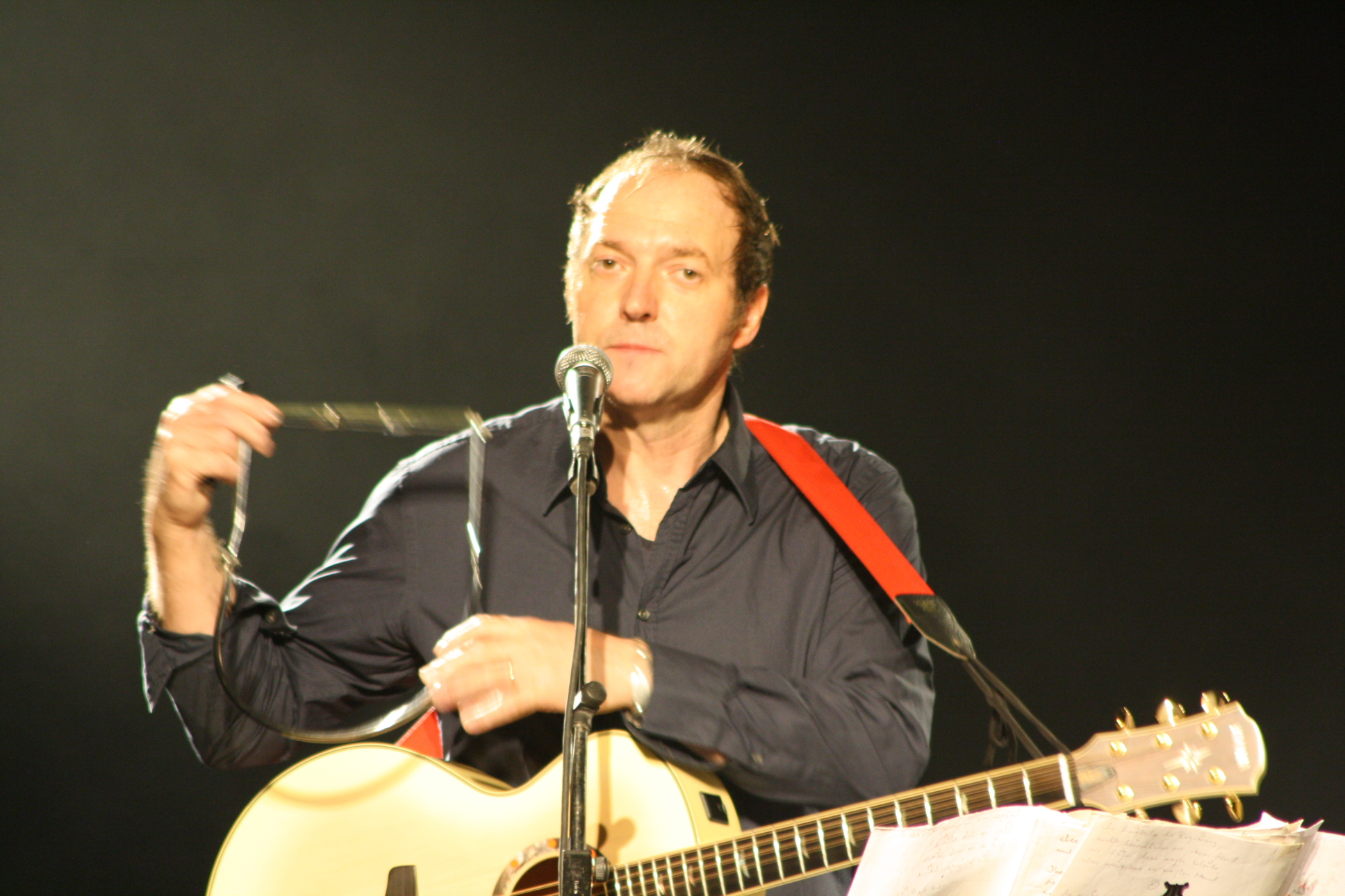 Funny van Dannen; Wiesbaden; Schlachthof